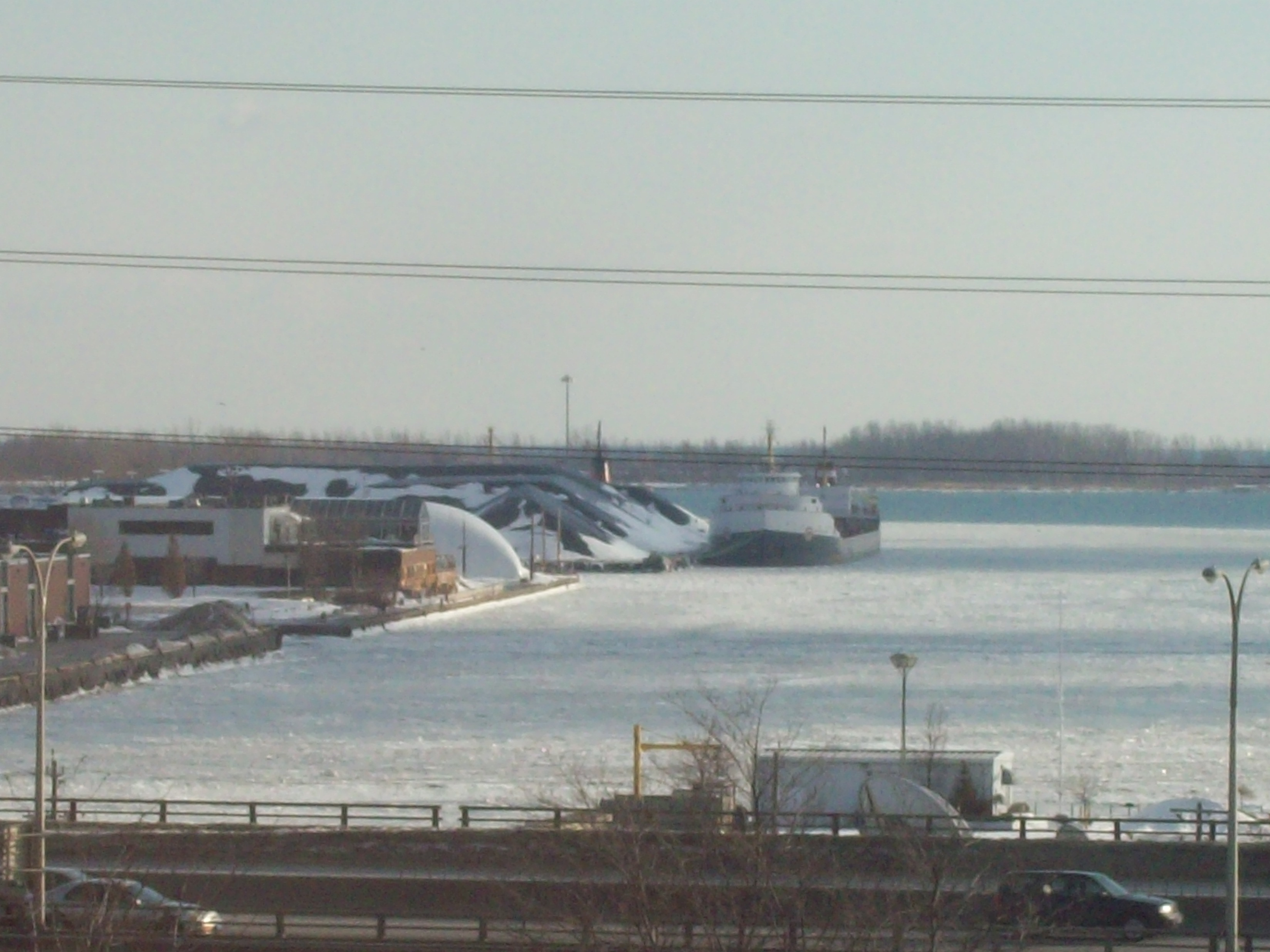 Heavily laden lake freighter frozen in to Toronto harbour Ship: Algocape